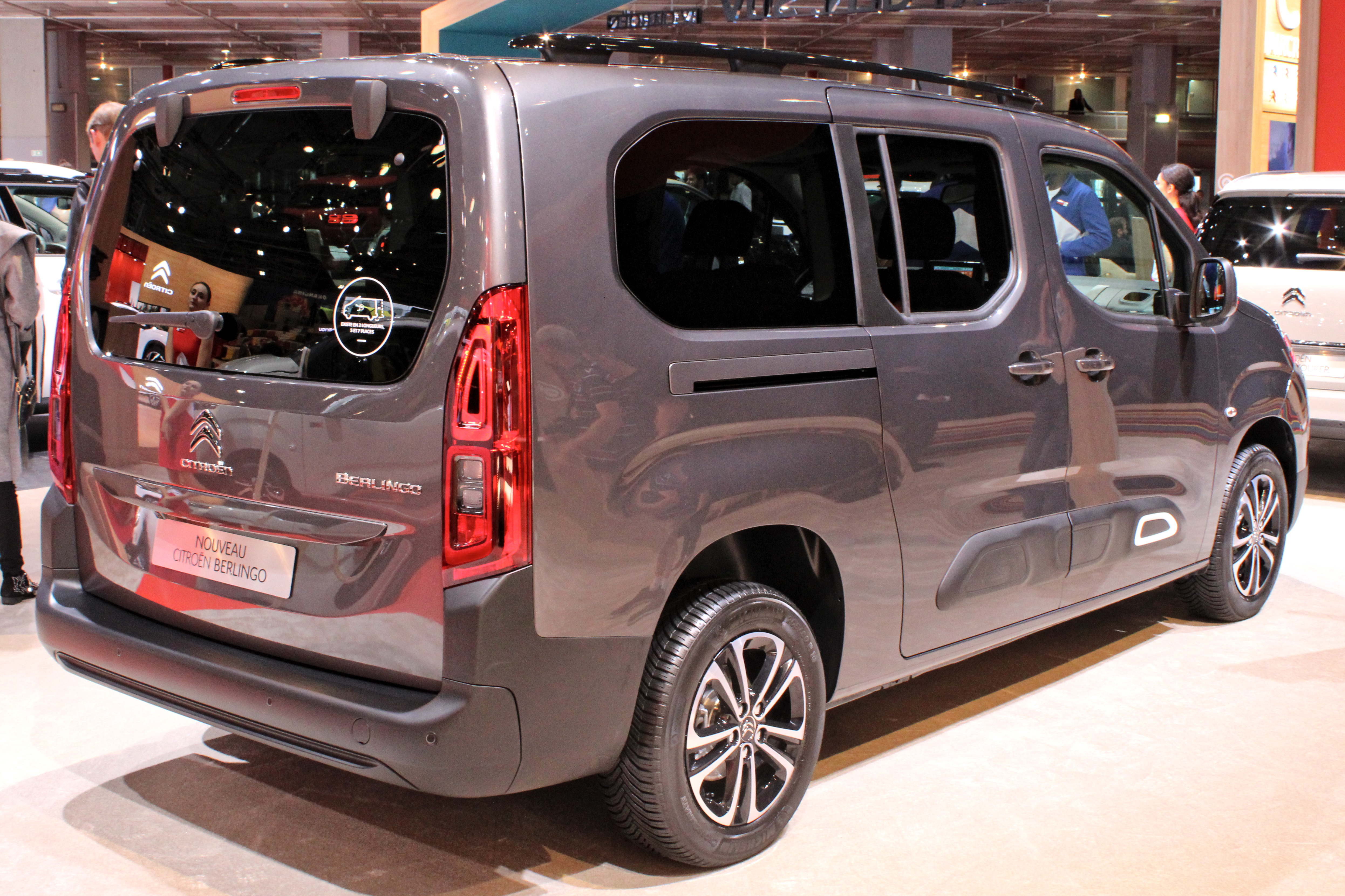 Citroen Berlingo XL at Paris Motor Show 2018